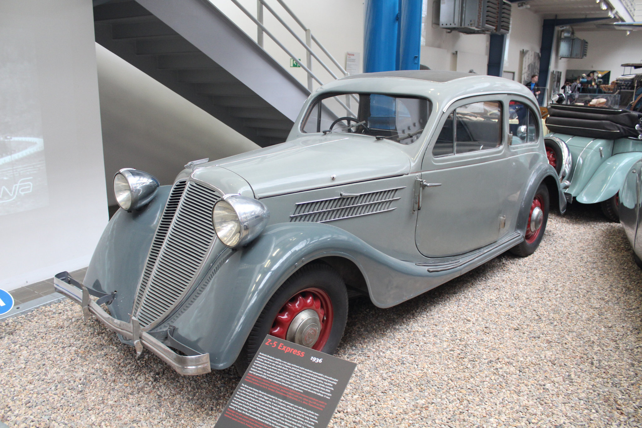 This image has been originally created as the illustration for Mercedes-Benz logo entry in crosswords dictionary . It has been released under CC-BY-3.0 license.